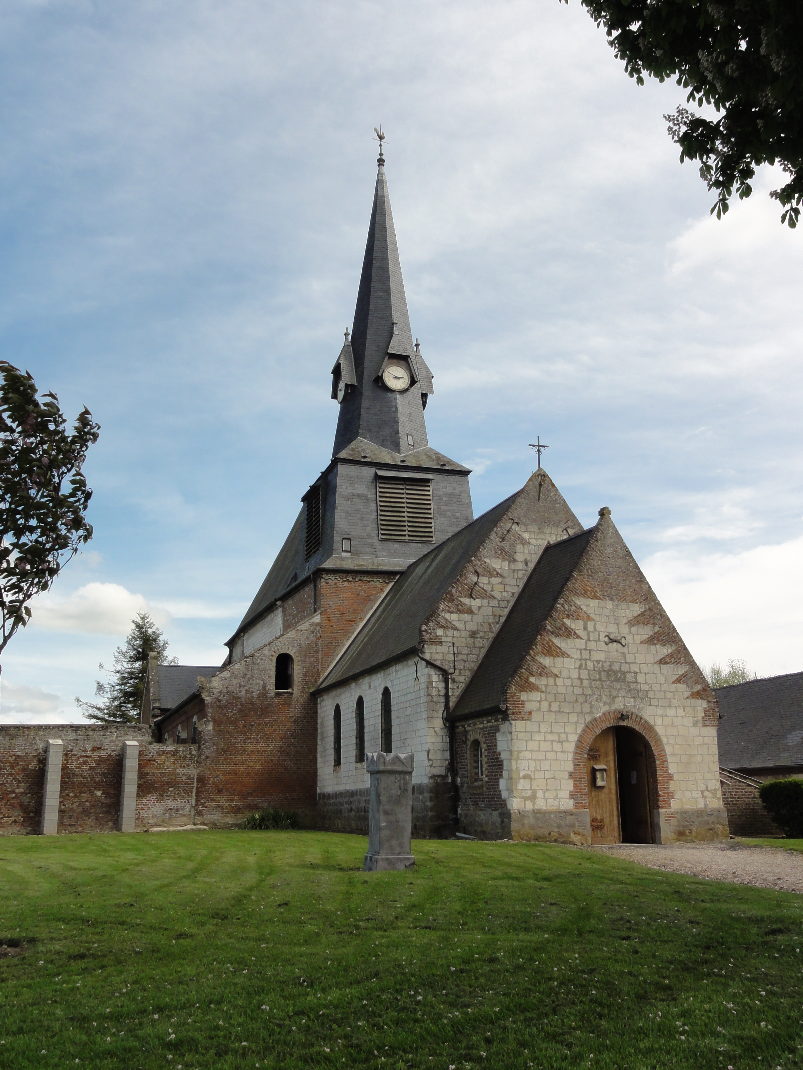 Mesbrecourt-Richecourt (Aisne) église Sainte-Benoîte, extérieur